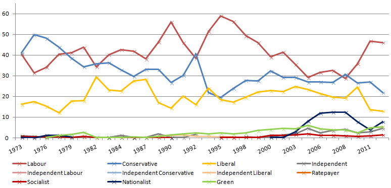 Popular voter share for Leeds local elections between 1973 and 2012. Labour: Labour Conservative: Conservative Liberal: Liberal, Alliance, SLD, Liberal Democrats Independent: Independents, Seacroft Party, Morley Borough Independents Independent Labour: Independent Labour Independent Conservative: Independent Conservative Independent Liberal: SDP, Liberal Socialist: CPGB, Revolutionary Communist, Militant Labour, Leeds Left Alliance, Socialist Alliance, Socialist Labour, AGS, Respect, TUSC Nationalist: National Front, BNP, UKIP, English Democrats, BPP Greens: Ecology, Greens Ratepayer: Ratepayers Association